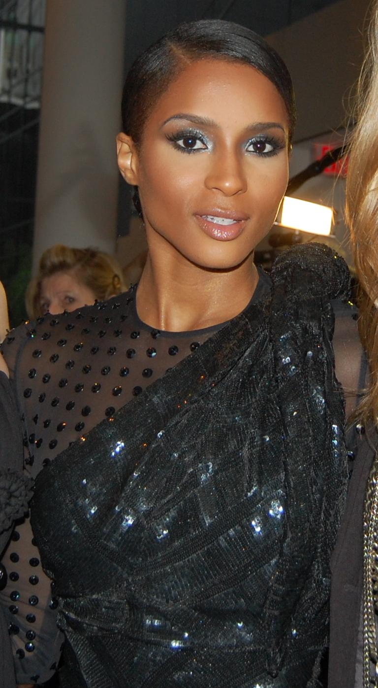 Ciara, Decembre 2018